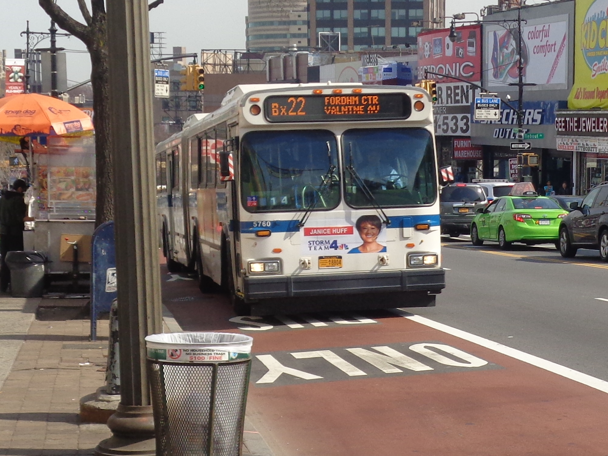 A terminating Bx22 bus at Fordham Road and Valentine Avenue in Fordham Center, Bronx.